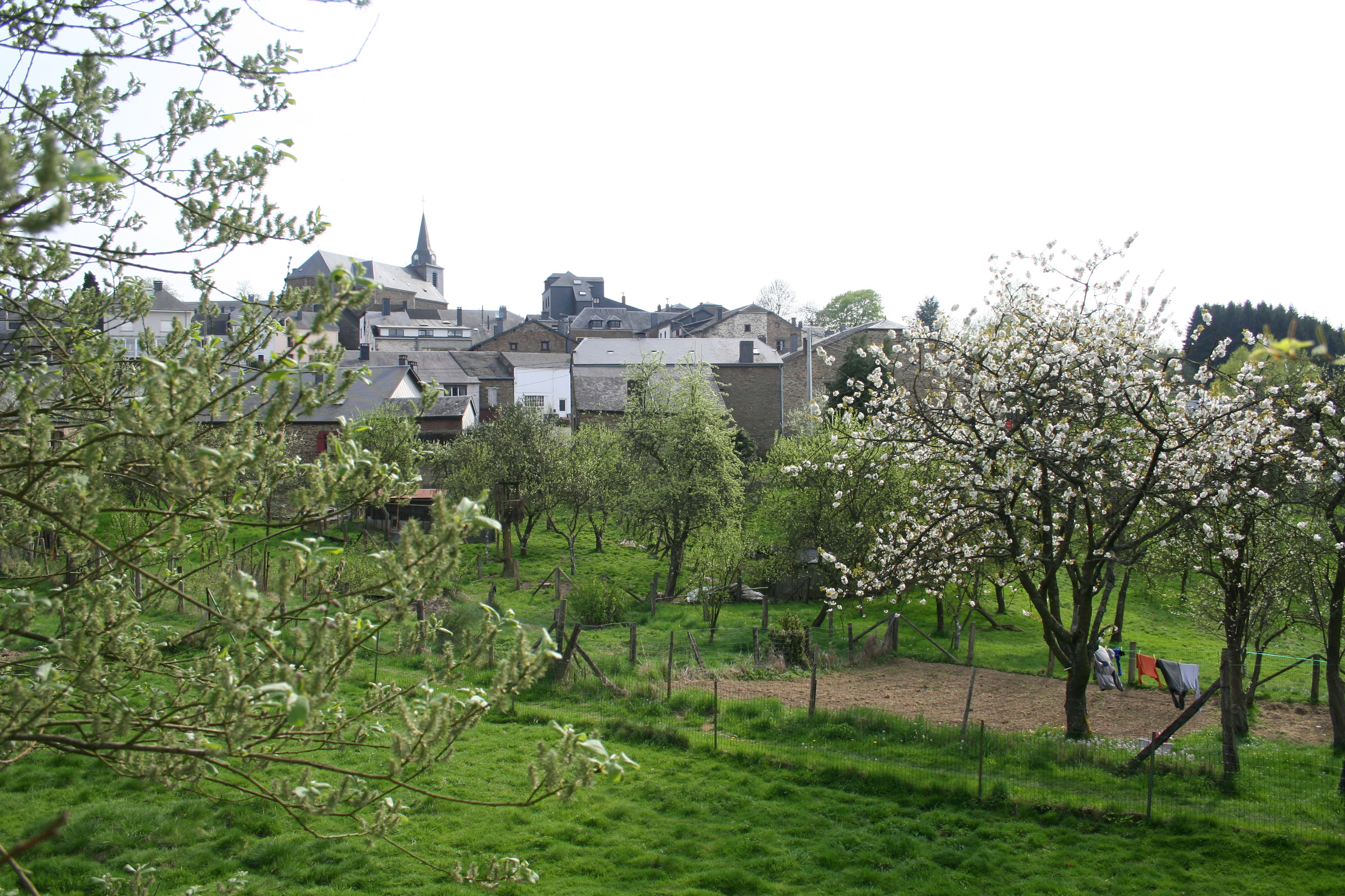 Corbion (Belgium), the village in the springtime.